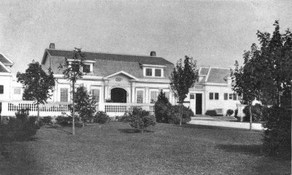 Brookholt Estate in East Meadow, Long Island, New York.